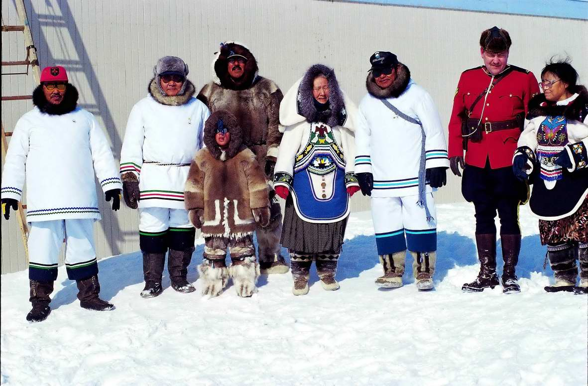 Ceremony on the occasion of the foundation of Nunavut, April 1st 1999